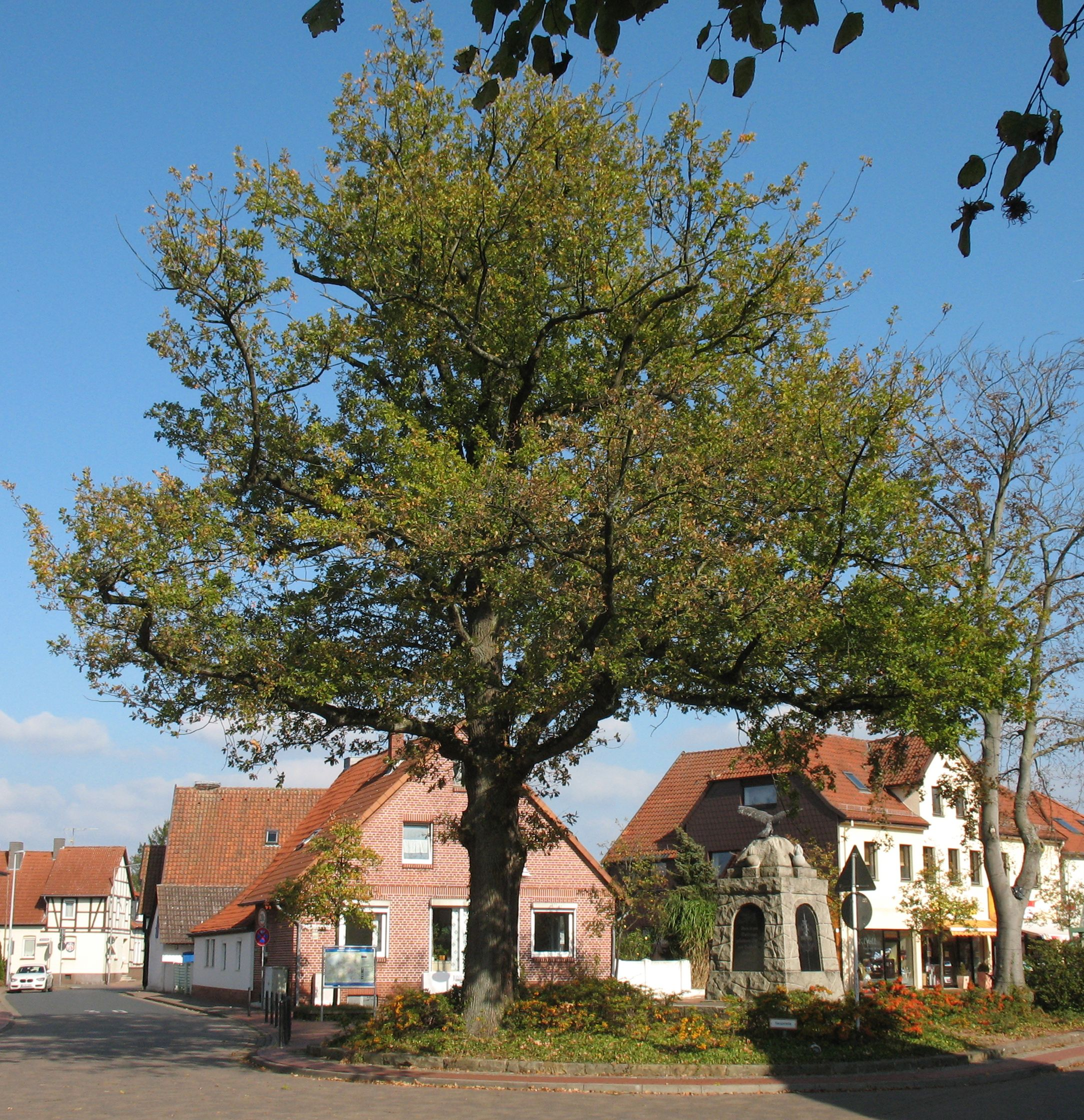 Oak of peace in Wunstorf-Steinhude in Lower Saxony, Germany